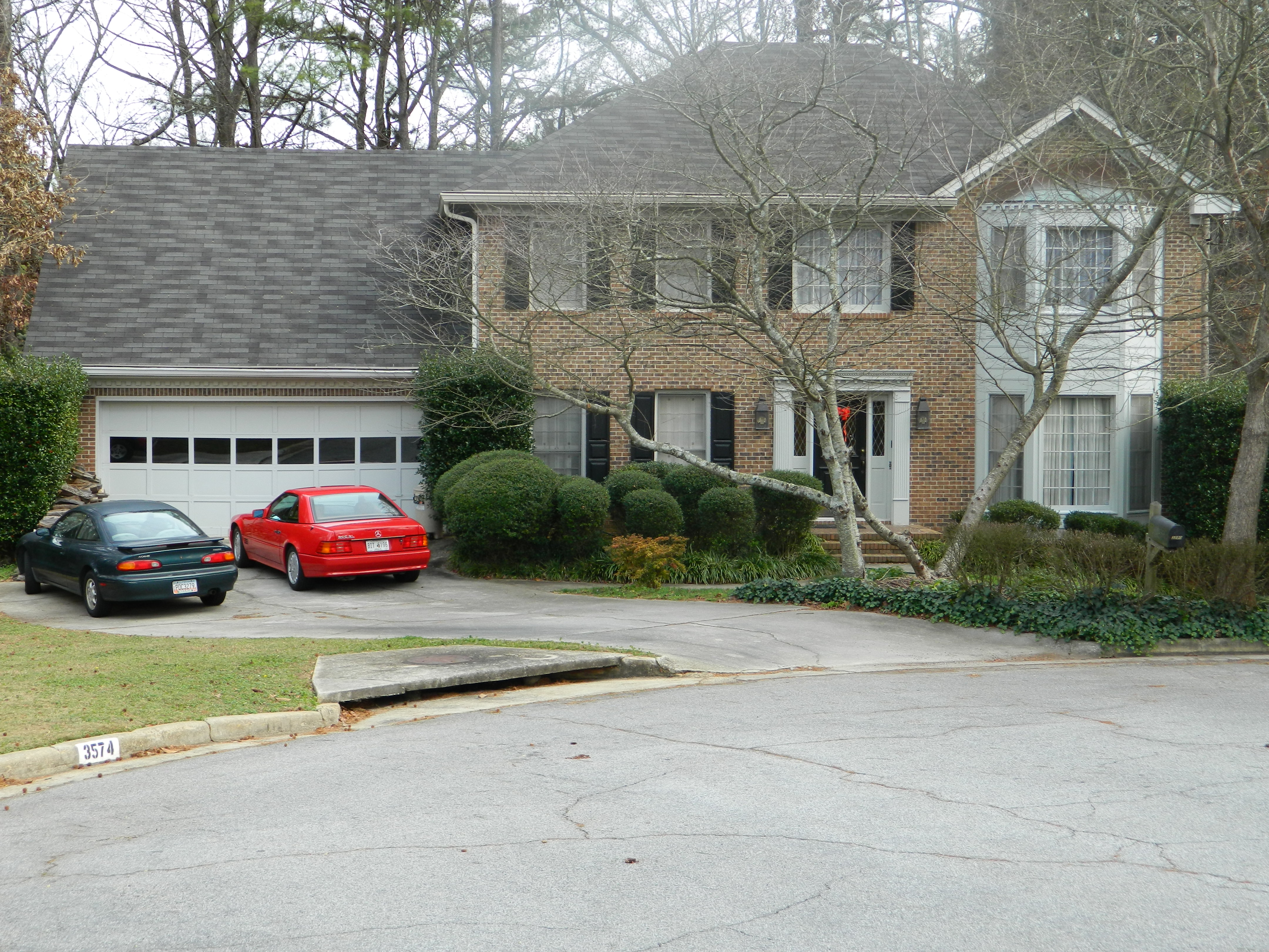 suburban home in Tucker, Georgia (winter view)